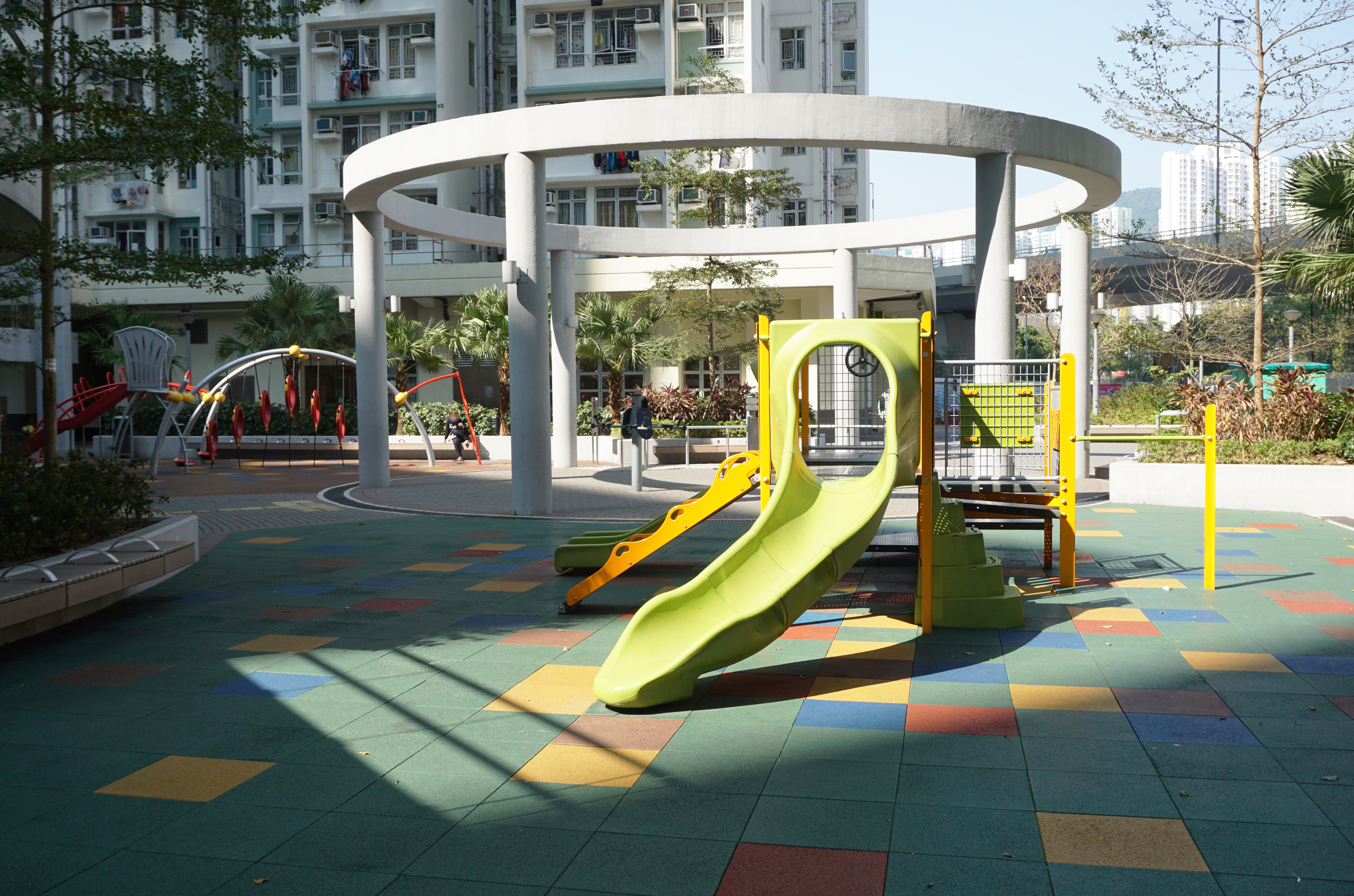 Wing Cheong Estate in Sham Shui Po, Hong Kong.